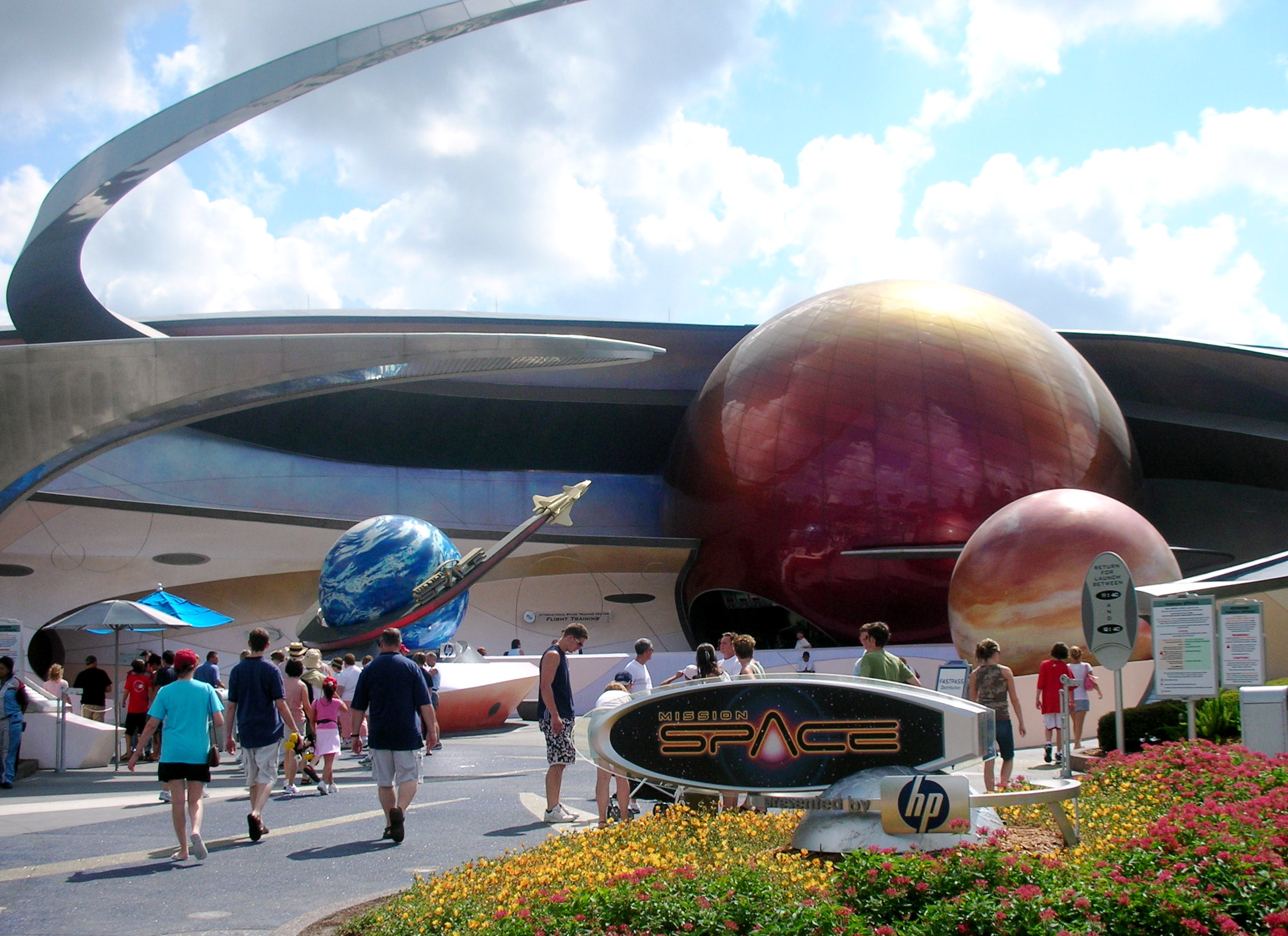 Mission: SPACE attraction at Epcot in Walt Disney World Resort, Florida, United States